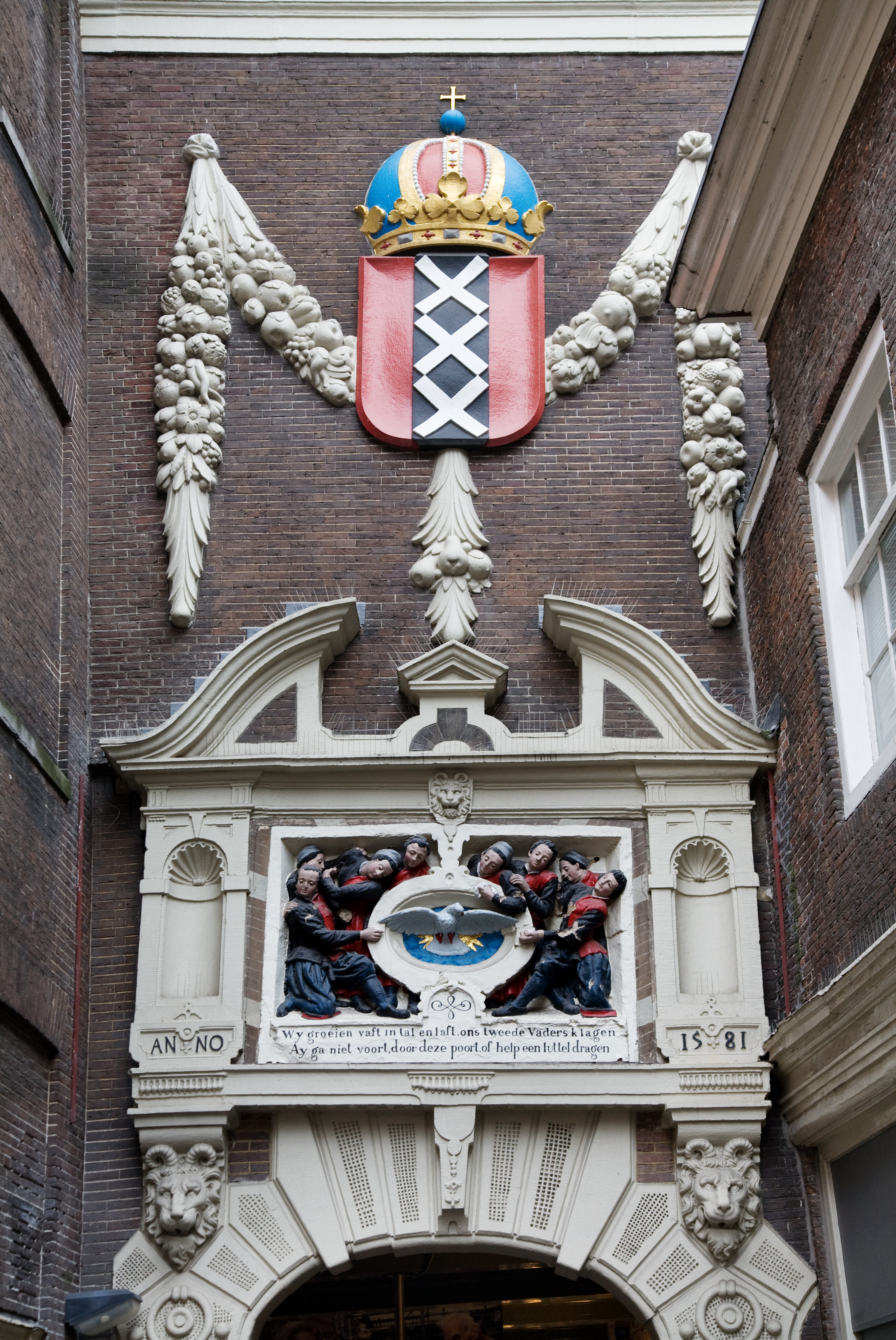 The relief of Joost Jansz Bilhamer above the orphanage gate in Kalverstraat grouped with orphans at the Orphanage of the emblem: a white dove, the symbol of the Holy Spirit..Amsterdam, The Netherlands